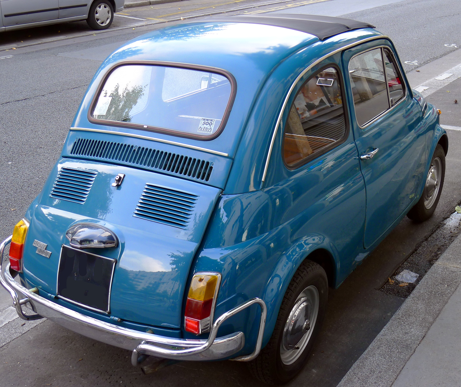 Fiat 500L